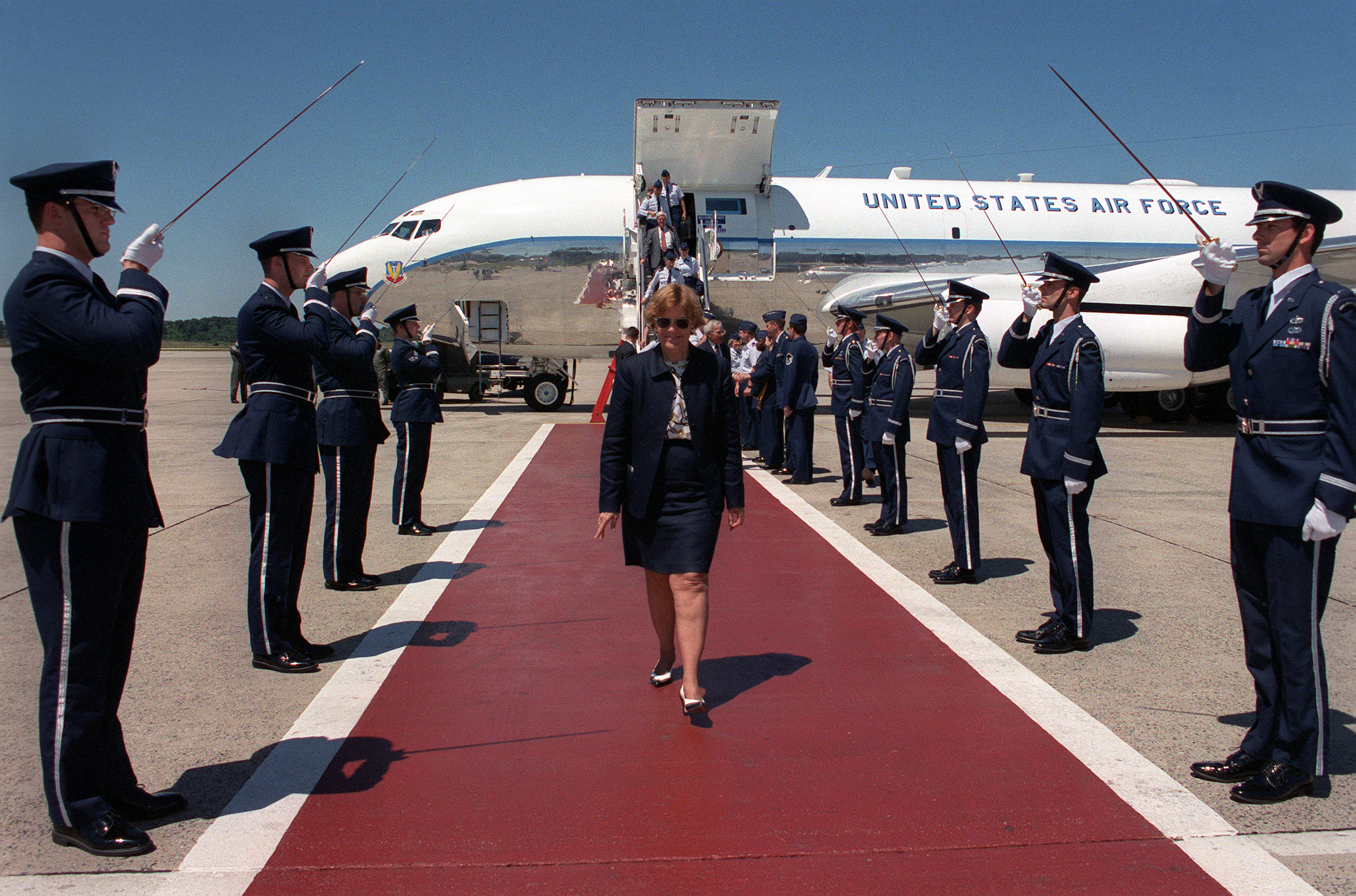 Hanscom's elite Honor Guard execute "present arms" as Dr. Shiela Widnall, Secretary of the Air Force departs her aircraft for a tour of the base and Electronic Systems Center (ESC).